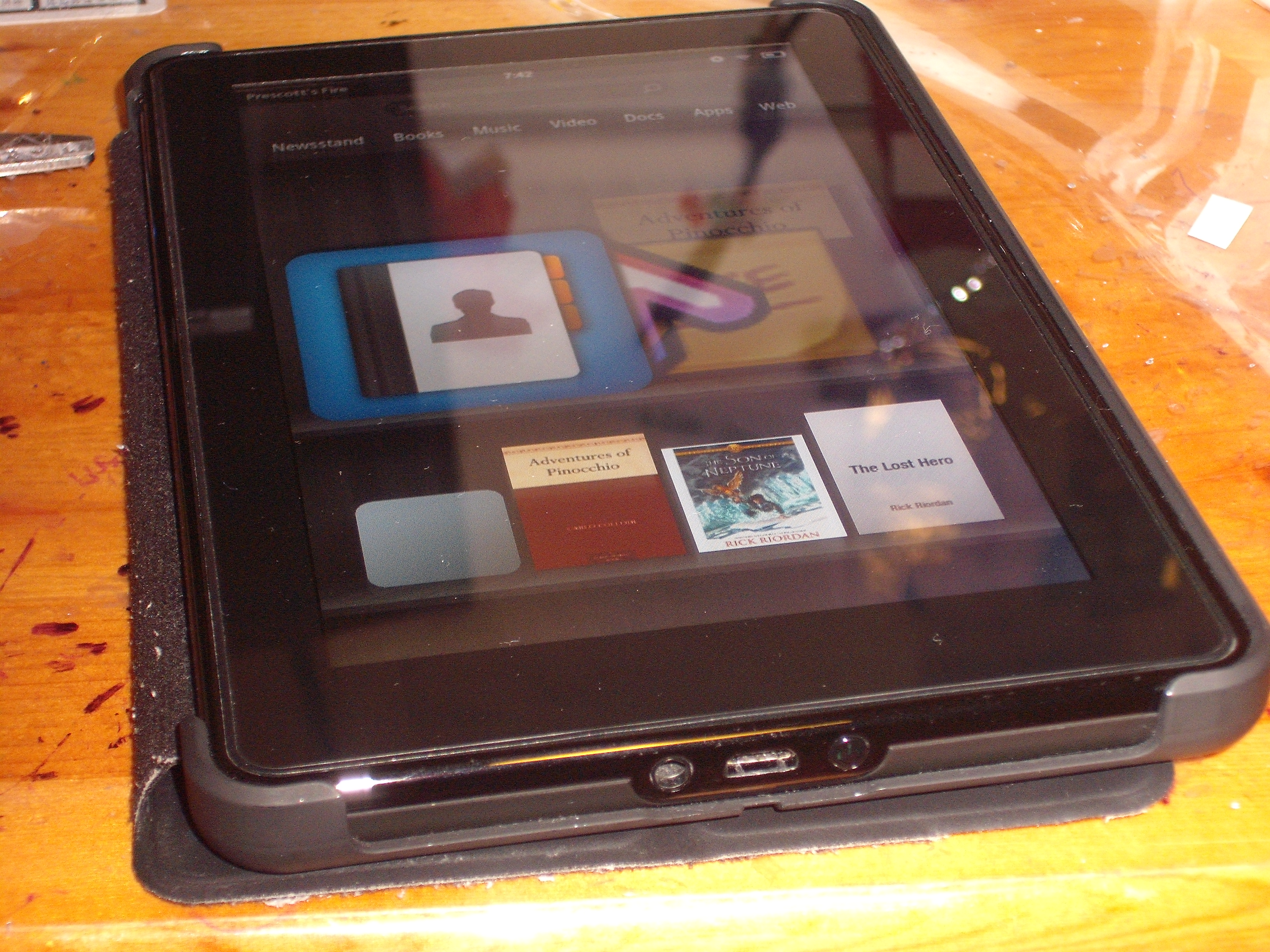 First generation Kindle Fire; 's fist tablet computer.